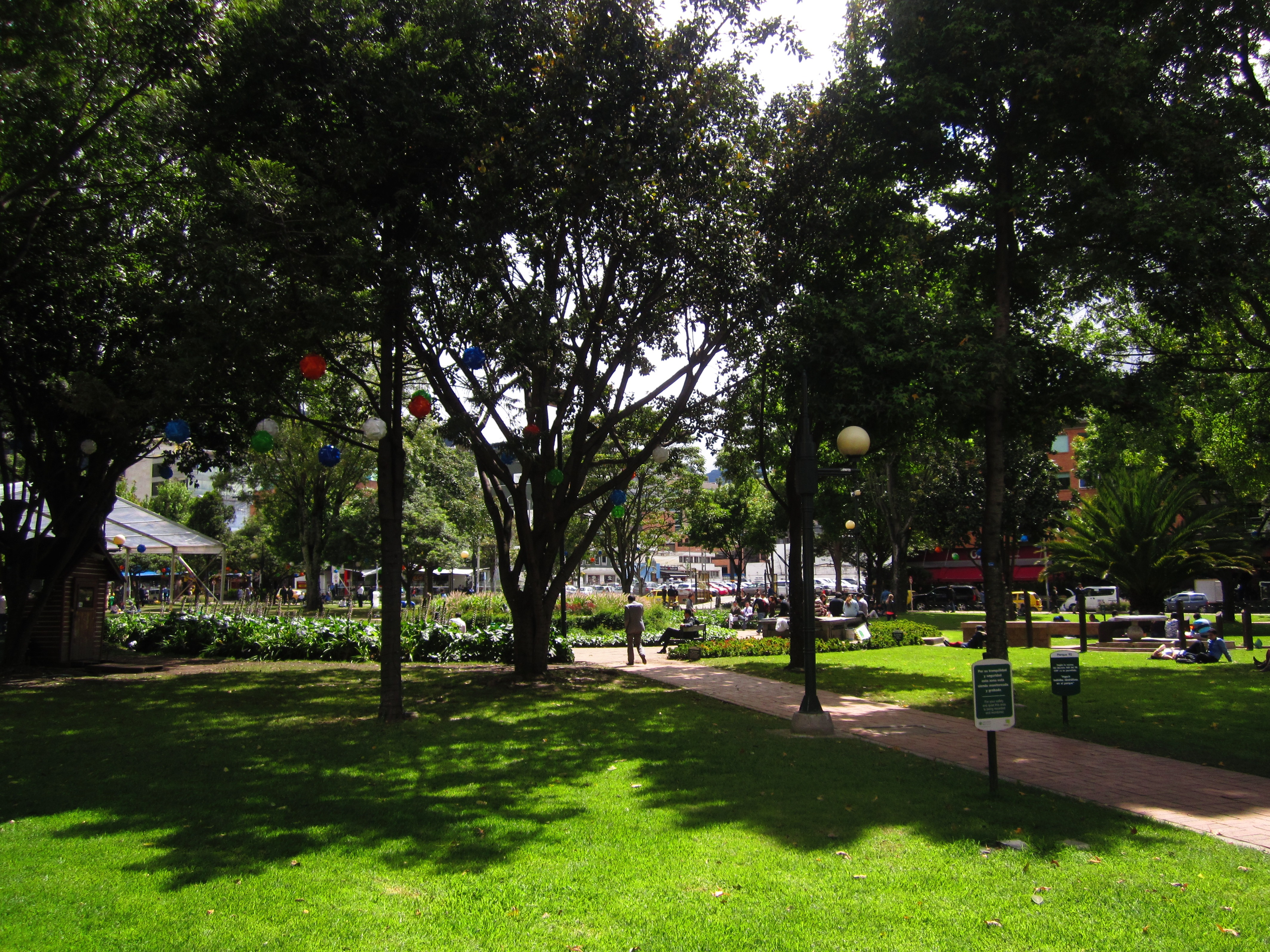 Bogotá